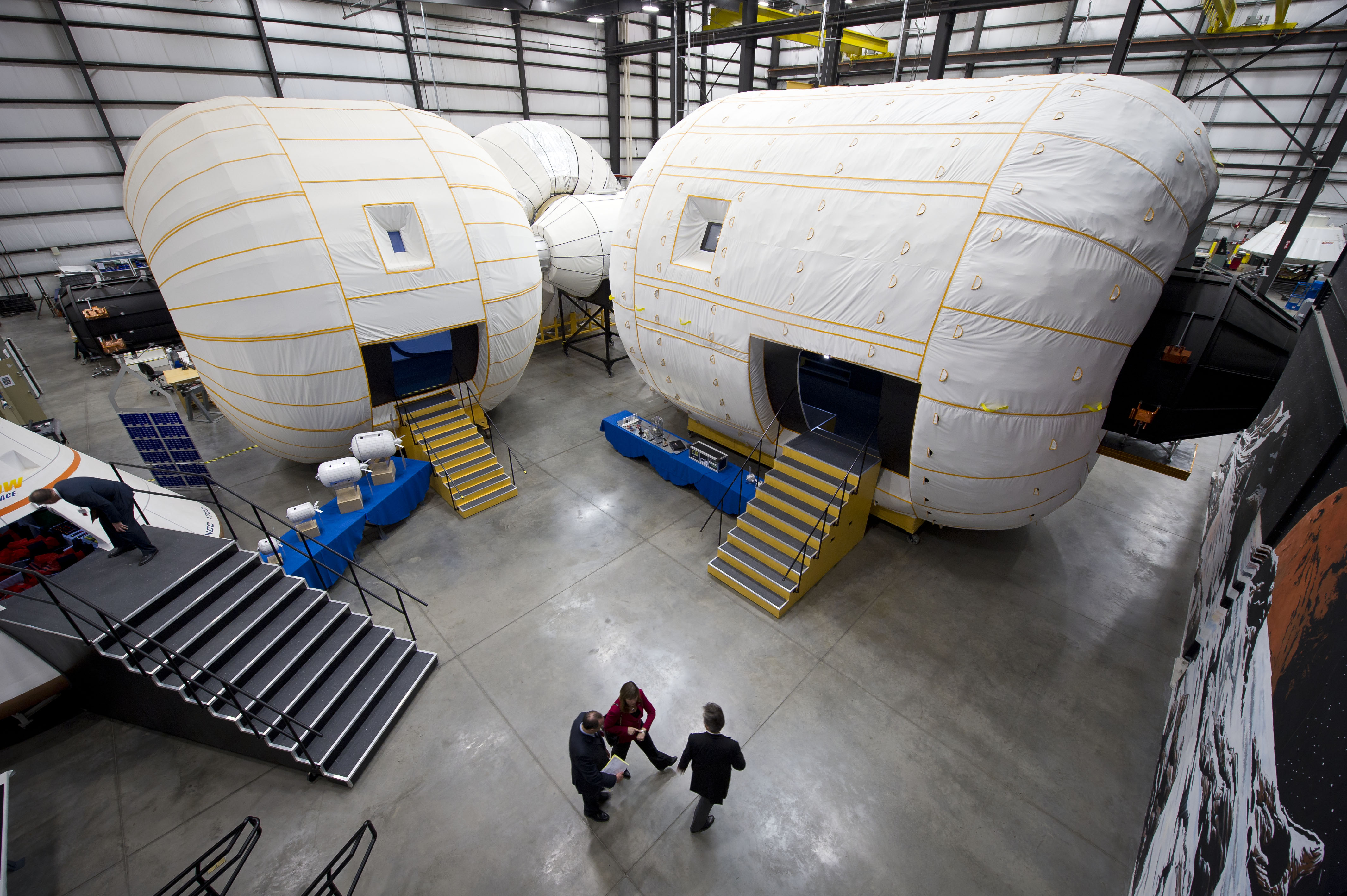 NASA Deputy Administrator Lori Garver is given a tour of the Bigelow Aerospace facilities by the company's President Robert Bigelow on Friday, Feb. 4, 2011, in Las Vegas